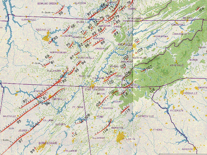 Map of tornado tracks over the Southern United States during the Super Outbreak of April 3-4, 1974.